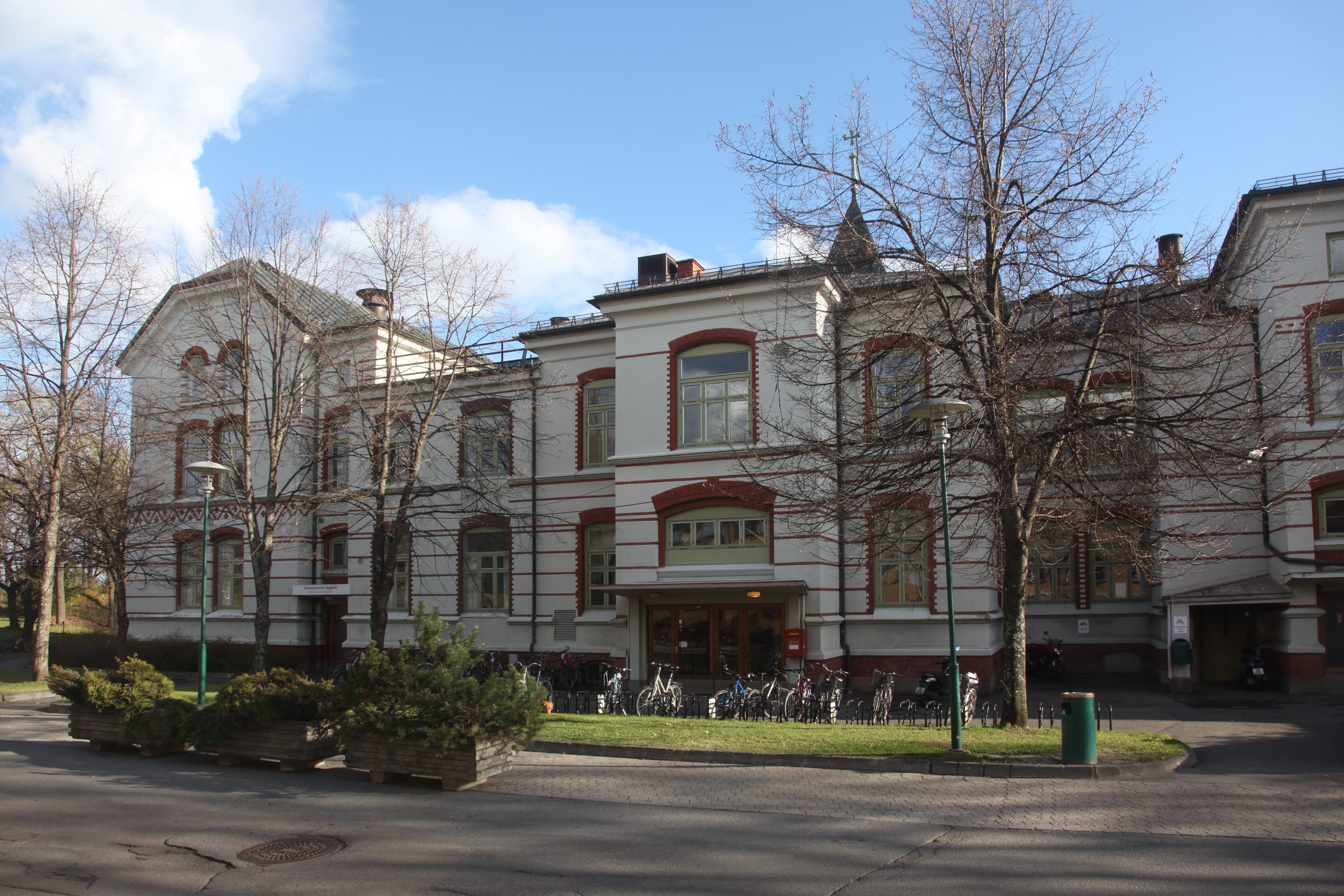 Diakonhjemmet Høgskole. College at Diakonhjemmet hospital in Oslo